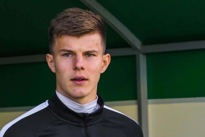 Eduard Sobol is a Ukrainian footballer